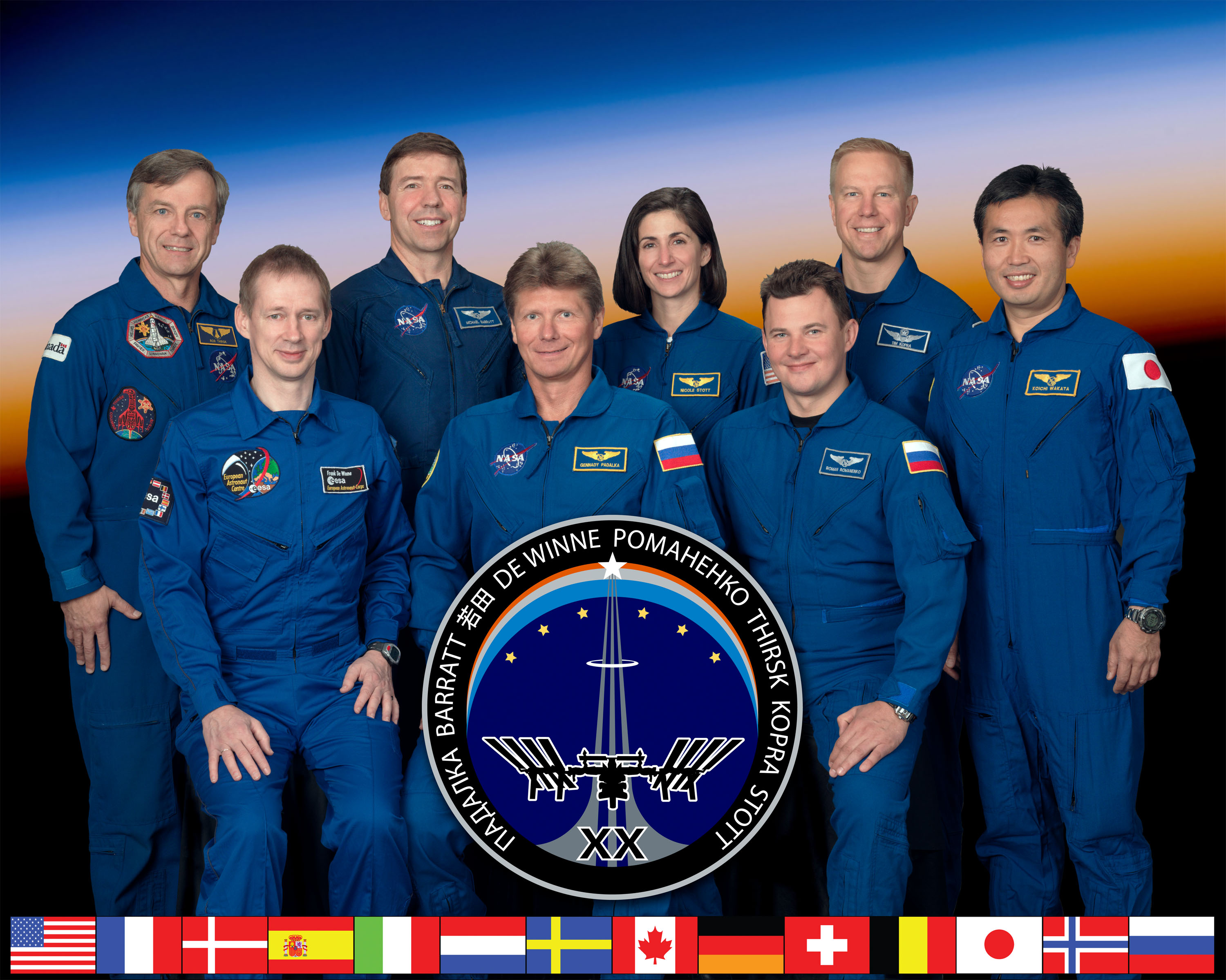 Expedition 20 crewmembers take a break from training at NASA's Johnson Space Center to pose for a crew portrait. From the left (front row) are European Space Agency astronaut Frank De Winne, Expedition 20 flight engineer and Expedition 21 commander; cosmonaut Gennady Padalka, Expedition 19/20 commander; and cosmonaut Roman Romanenko, Expedition 20/21 flight engineer. From the left (back row) are Canadian Space Agency astronaut Robert Thirsk, Expedition 20/21 flight engineer; NASA astronauts Michael Barratt, Expedition 19/20 flight engineer; Nicole Stott, Expedition 20/21 flight engineer; Tim Kopra, Expedition 20 flight engineer; and Japan Aerospace Exploration Agency (JAXA) astronaut Koichi Wakata, 18/19/20 flight engineer.